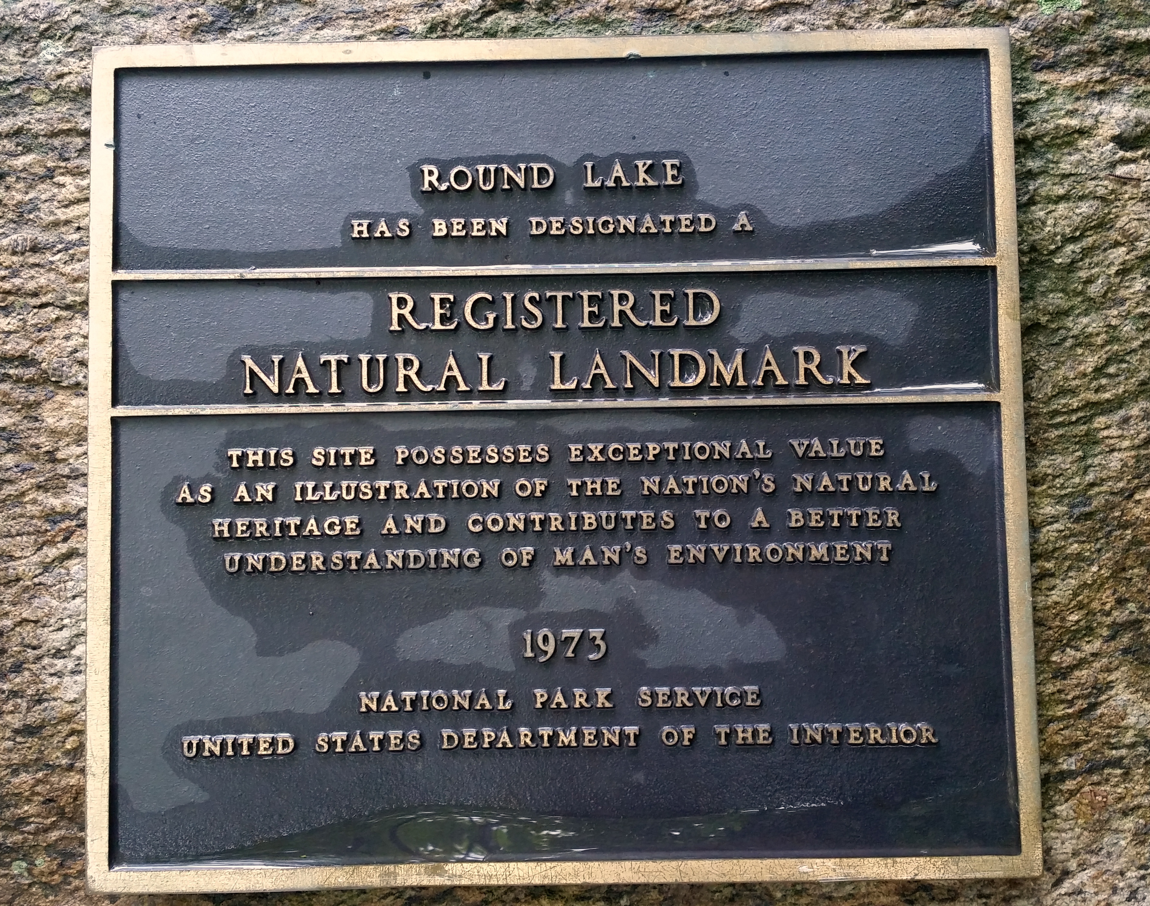 Plaque recording the status of Round Lake as a National Natural Landmark, Green Lakes State Park, Manlius, NY